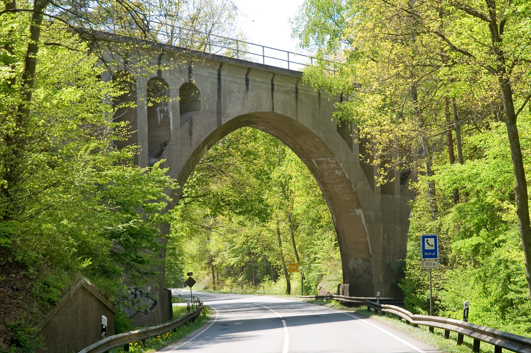 Viaduct of the railway Uelzen-Dannenberg (West) over the federal highway 191 near Pudripp in the district Luechow-Dannenberg in Lower Saxony, Germany.